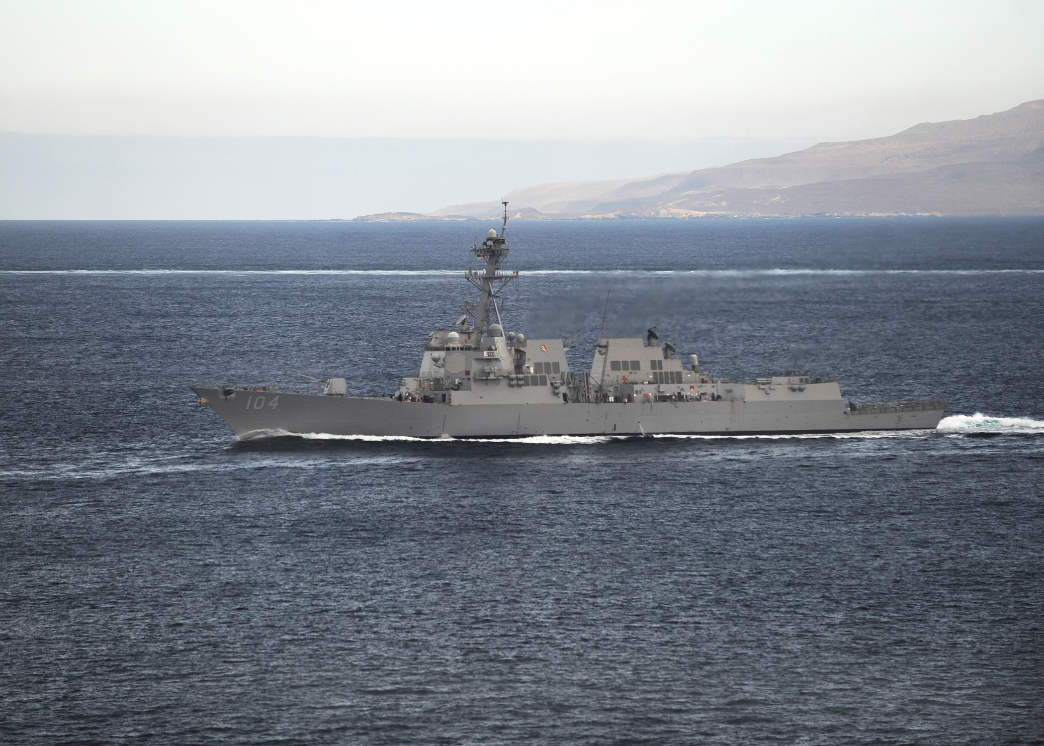 PACIFIC OCEAN (Sept. 30, 2011) The Arleigh Burke-class guided-missile destroyer USS Sterett (DDG 104) is underway conducting a composite training unit exercise with the Abraham Lincoln Carrier Strike Group. (U.S. Navy photo by Mass Communication Specialist 3rd Class Jerine Lee/Released)